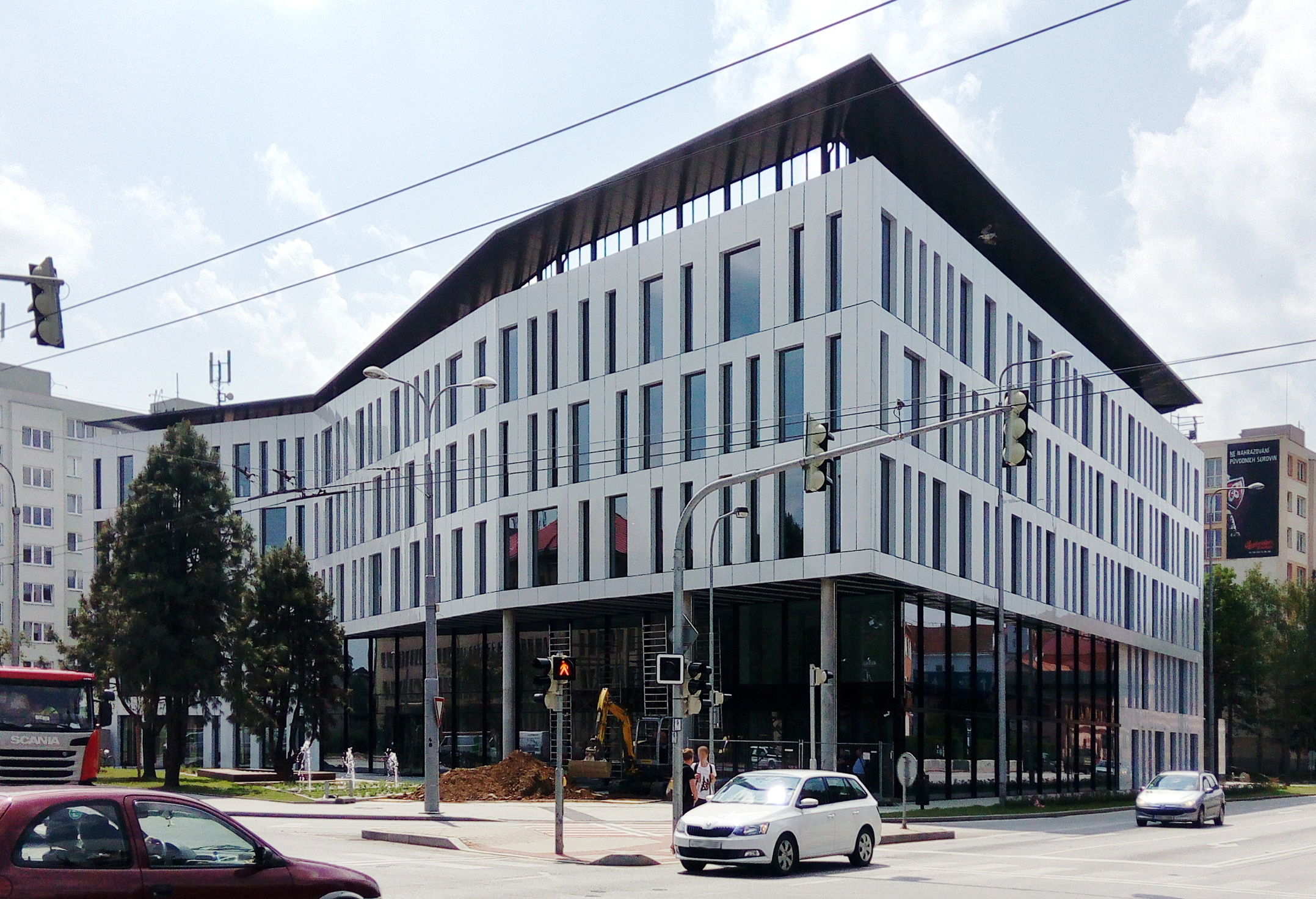 Business centre Piano built in 2018 in the city of České Budějovice, South Bohemian Region, Czech Republic.